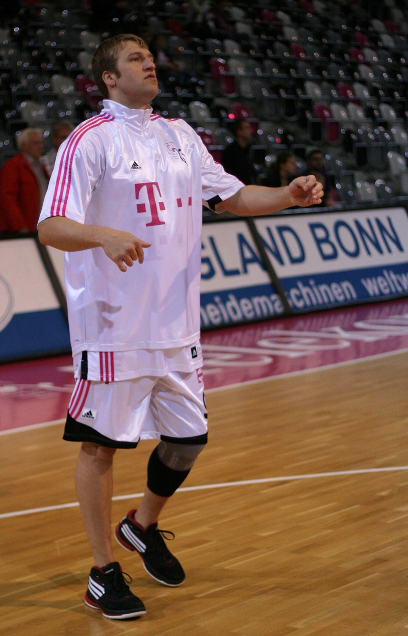 John Bowler